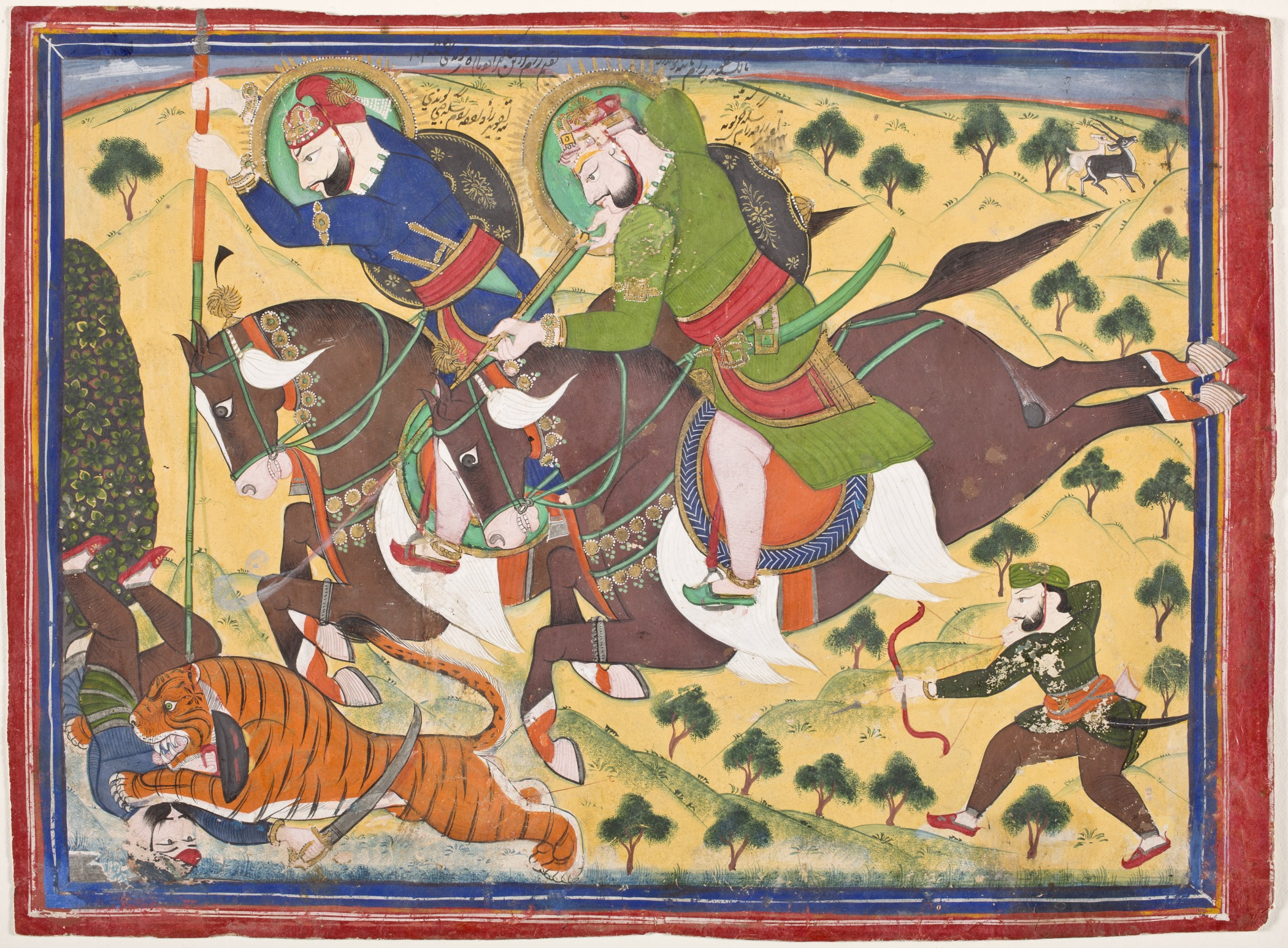 India, Rajasthan, Kota, circa 1880 Drawings; watercolors Opaque watercolor, gold, and ink on paper Image: 9 1/2 x 12 3/4 in. (24.13 x 32.38 cm); Sheet: 10 x 13 3/4 in. (25.4 x 34.92 cm) Anonymous gift (M.75.19) South and Southeast Asian Art